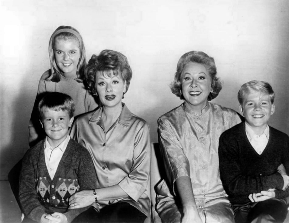 Cast photo from The Lucy Show. From left: Jimmy Garrett, Candy Moore, Lucille Ball, Vivian Vance and Ralph Hart. Garrett and Moore played Lucy Carmichael's children Jerry and Chris, while Hart played Vivian Bagley's son, Sherman.